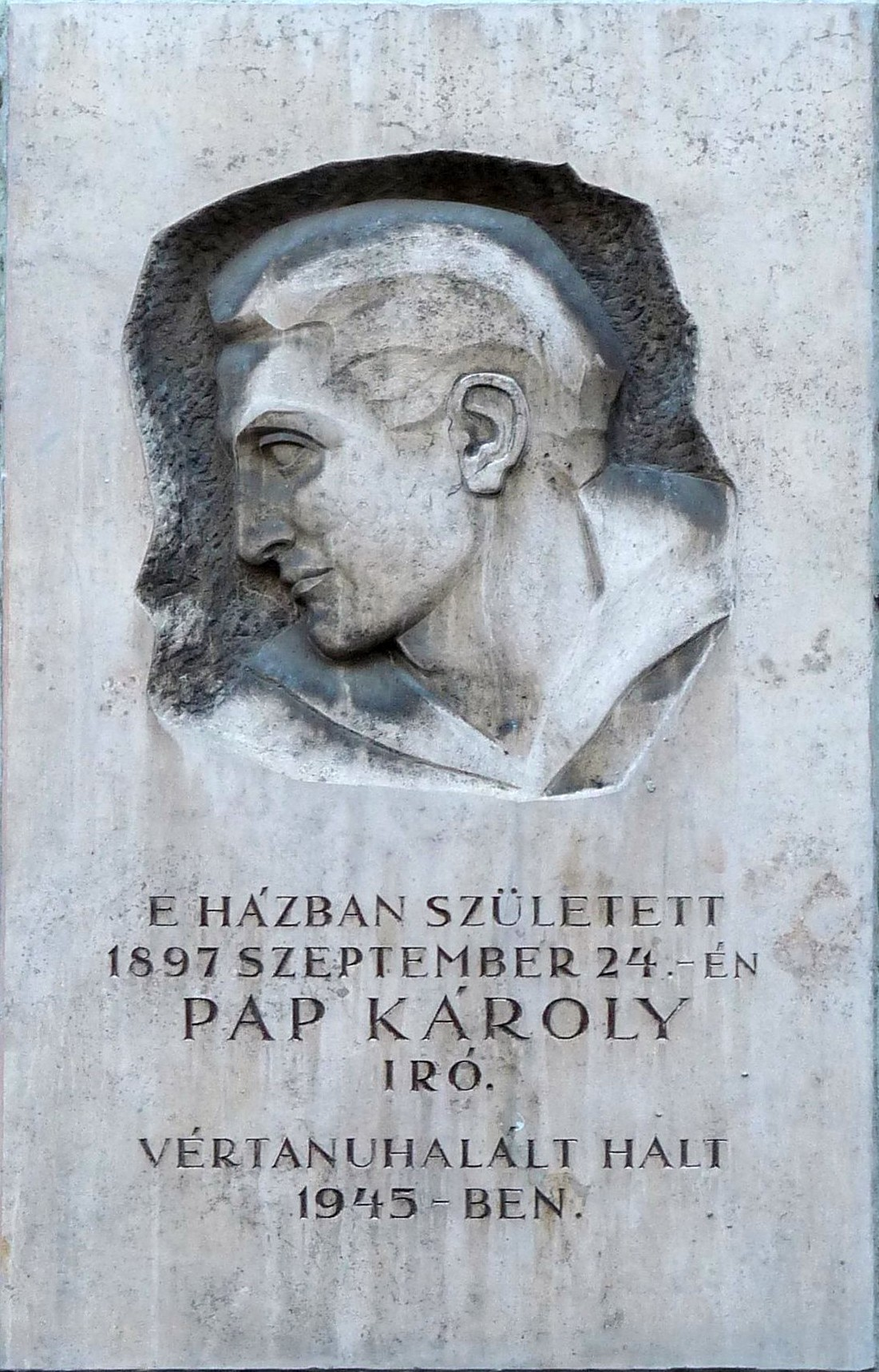 Commemorative plaque to Mr. Károly Pap (1897-1945) Hungarian writer affixed to the wall of his former home. The author of the stone relief is Mr. Ernő Szakál (1962). (Sopron, Fegyvertár Street Nr 5)